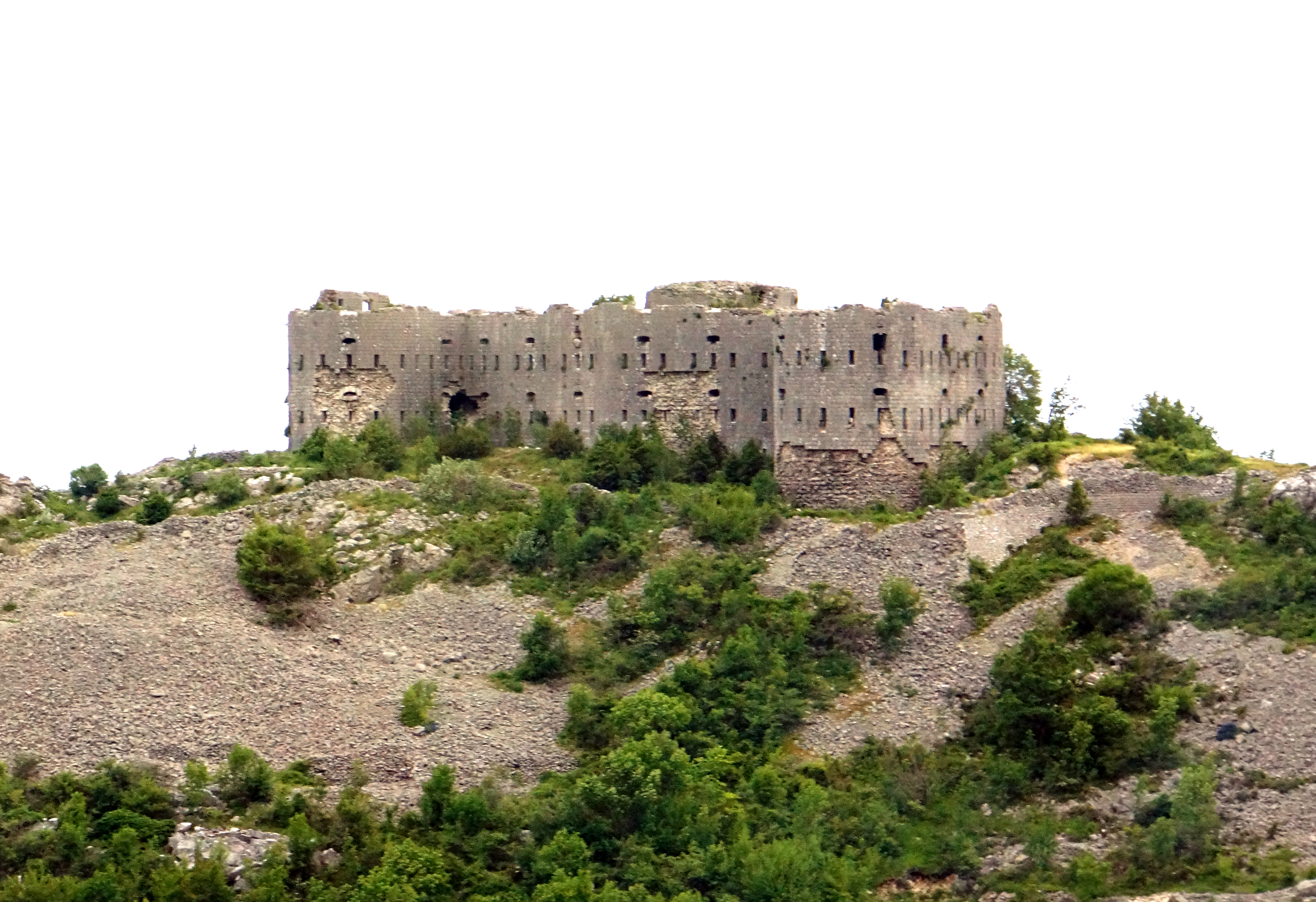 PLEASE,NO invitations or self promotion in your comments, THEY WILL BE DELETED. My photos are FREE for anyone to use, just give me credit and it would be nice if you let me know, thanks - NONE OF MY PICTURES ARE HDR. These are bus shots aa we passed by on our way to Albania. The fortress of Kosmač is situated on a hilltop adjacent to the village of Brajici, near Budva, at a height of 800 metres (2625 ft) above sea level. It was built between 1841-50 by the Austrians at the border between Montenegro and Austria. The entire fortification is built of finely dressed grey limestone from local quarries. Its ground plan is irregular and elongated, with two wings separated at its centre by a large circular tower. The fort consists of the ground floor, upper storey and a large basement. Kosmač is the key fortification in the area, forming the final defensive position in the chain of fortresses that defined the border. It is a typical example of the Austrian Hungarian fortified architecture of that time in the area of the South East Adriatic coastal line, the construction techniques used were well developed and an achievement of military architecture of that period. The fortress is in a highly dilapidated condition. It has lost its roof structure, significant parts of its internal structural walling and floors, and is at risk of continued collapse.